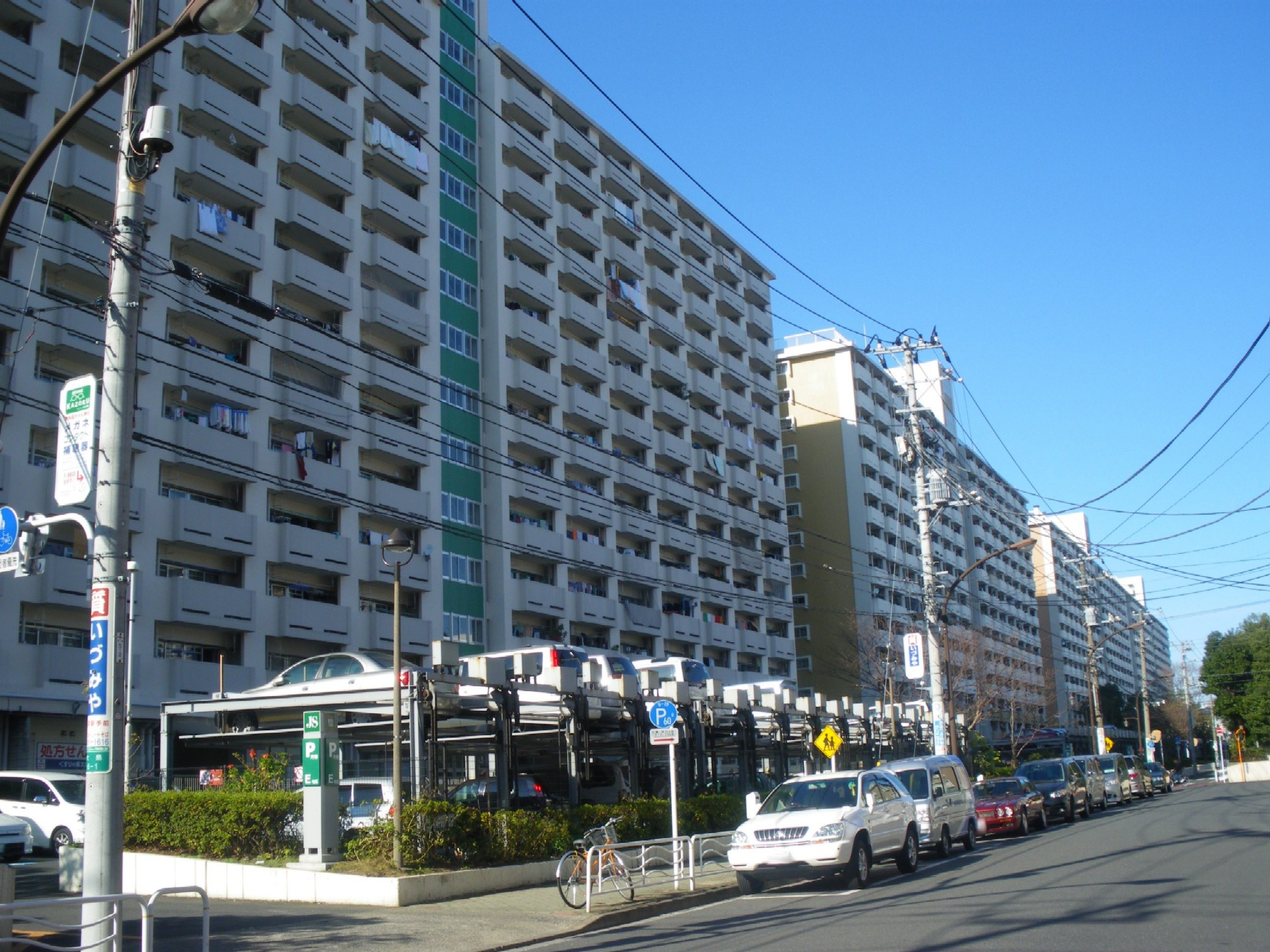 A photo of Ojima 6chome apartment blocks,which is the representative apartment blocks of Ojima. Kotou-ku,Tokyo,Japan.